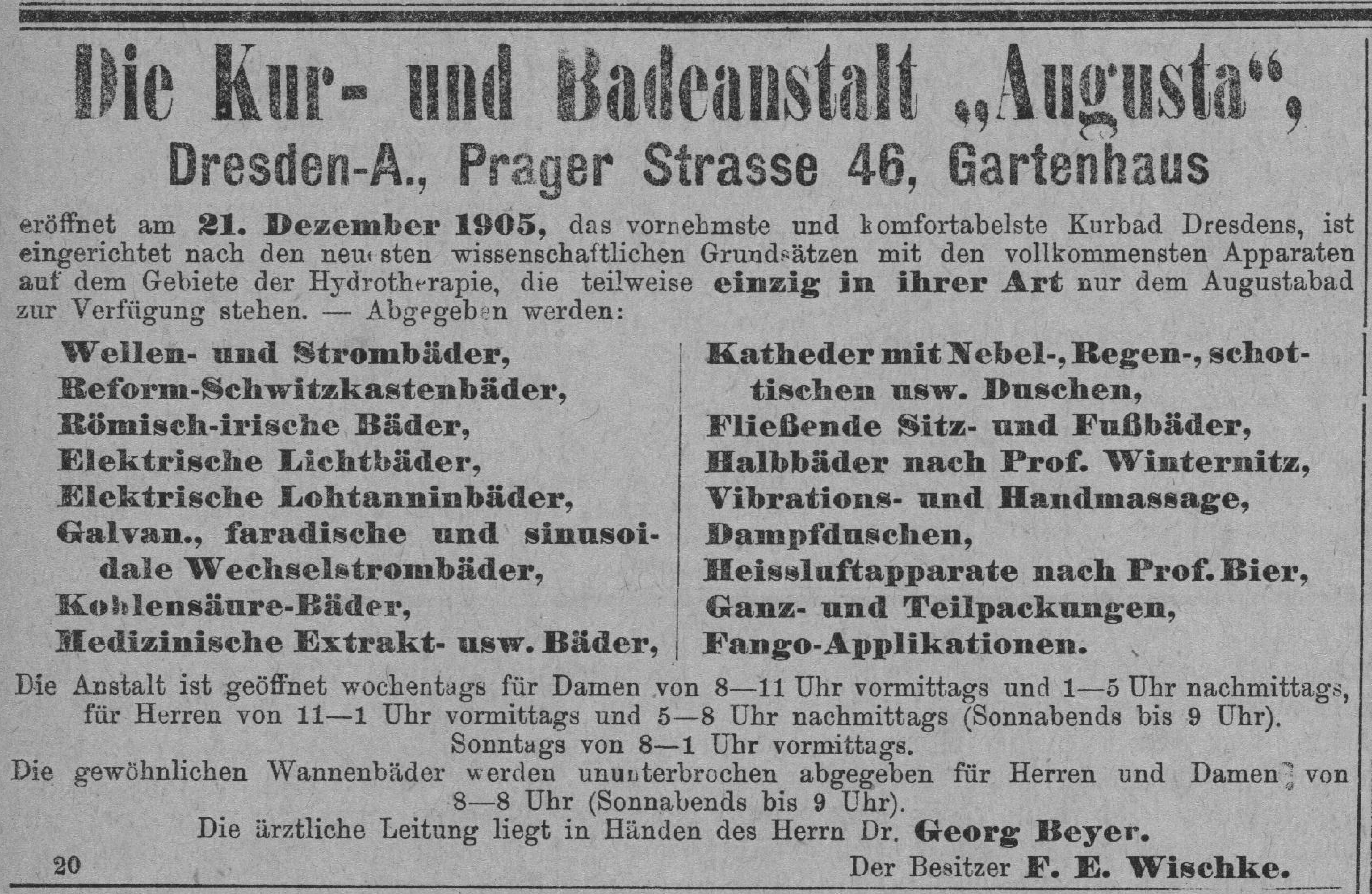 Scan from the Dresdner Journal, 1906